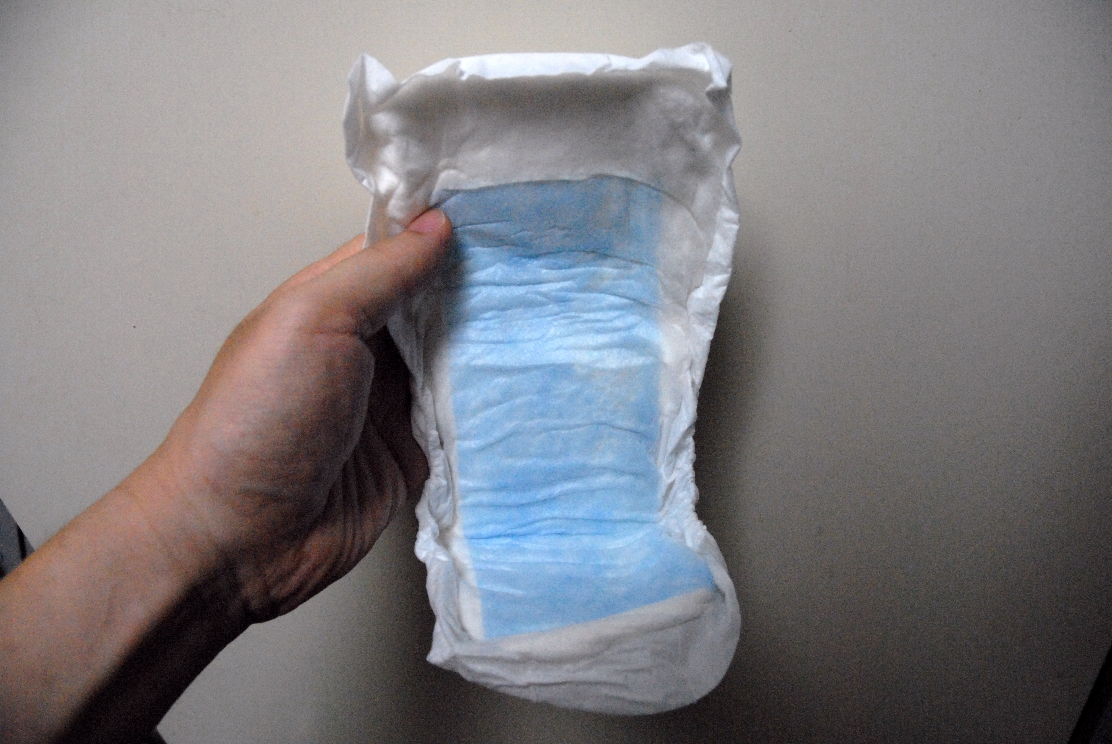 Incontinence pad for men.